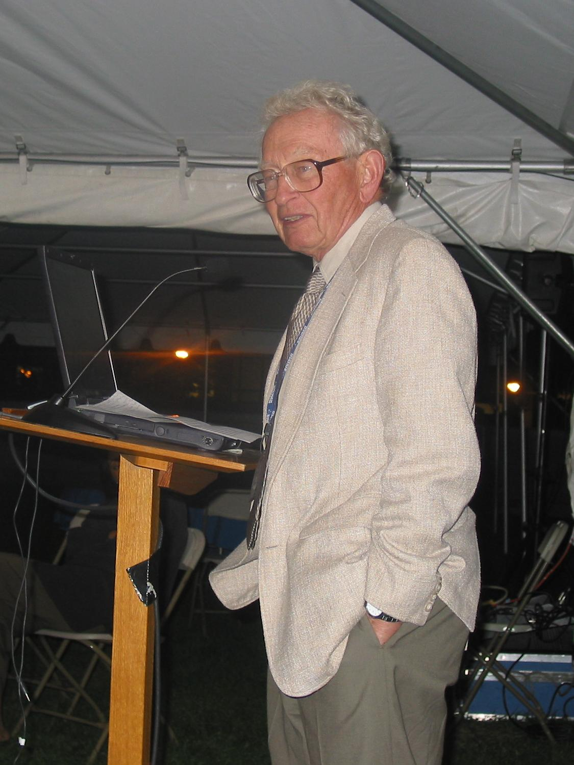 Philip Warren Anderson at Yale University